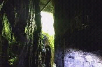 Khagrachhari new cave tabakkha